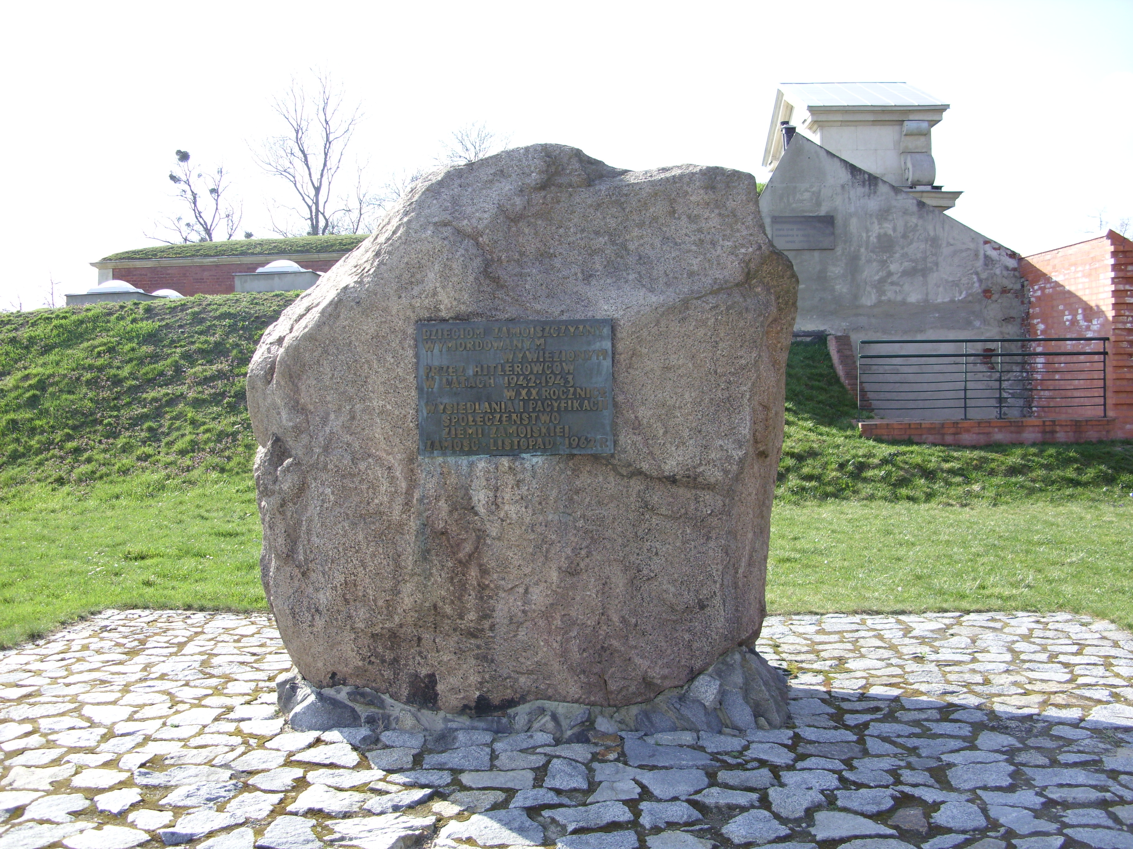 Children of Zamosc Region. Monument. Akademicka Street in Zamosc Poland